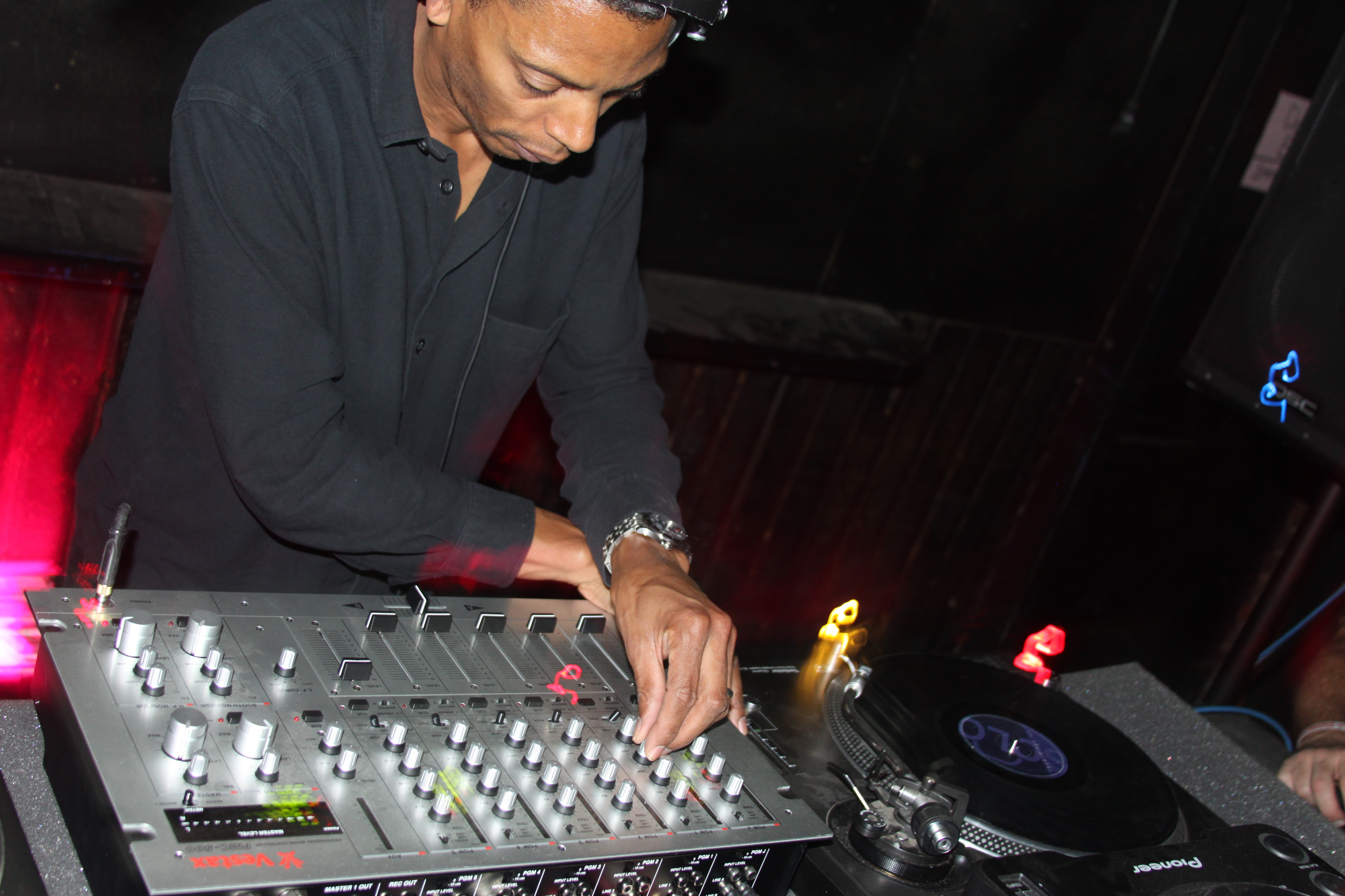 Jeff Mills mixing vinyl records on a Vestax PMC-500 DJ mixer.